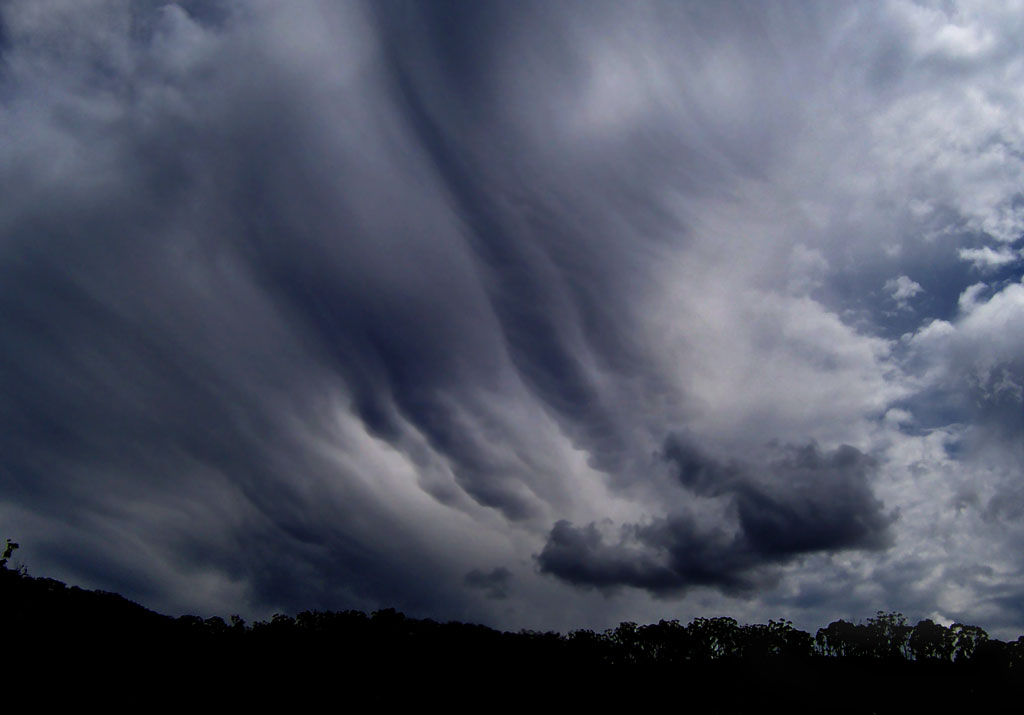 Clouds